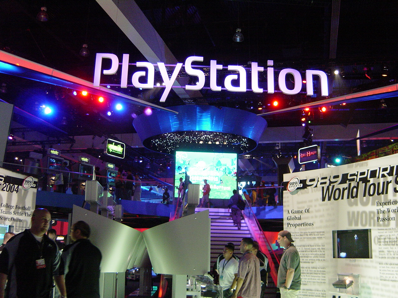 Taken on May 14, 2003 Dowtown Carrier Annex, Los Angeles, CA, US Sony Cybershot